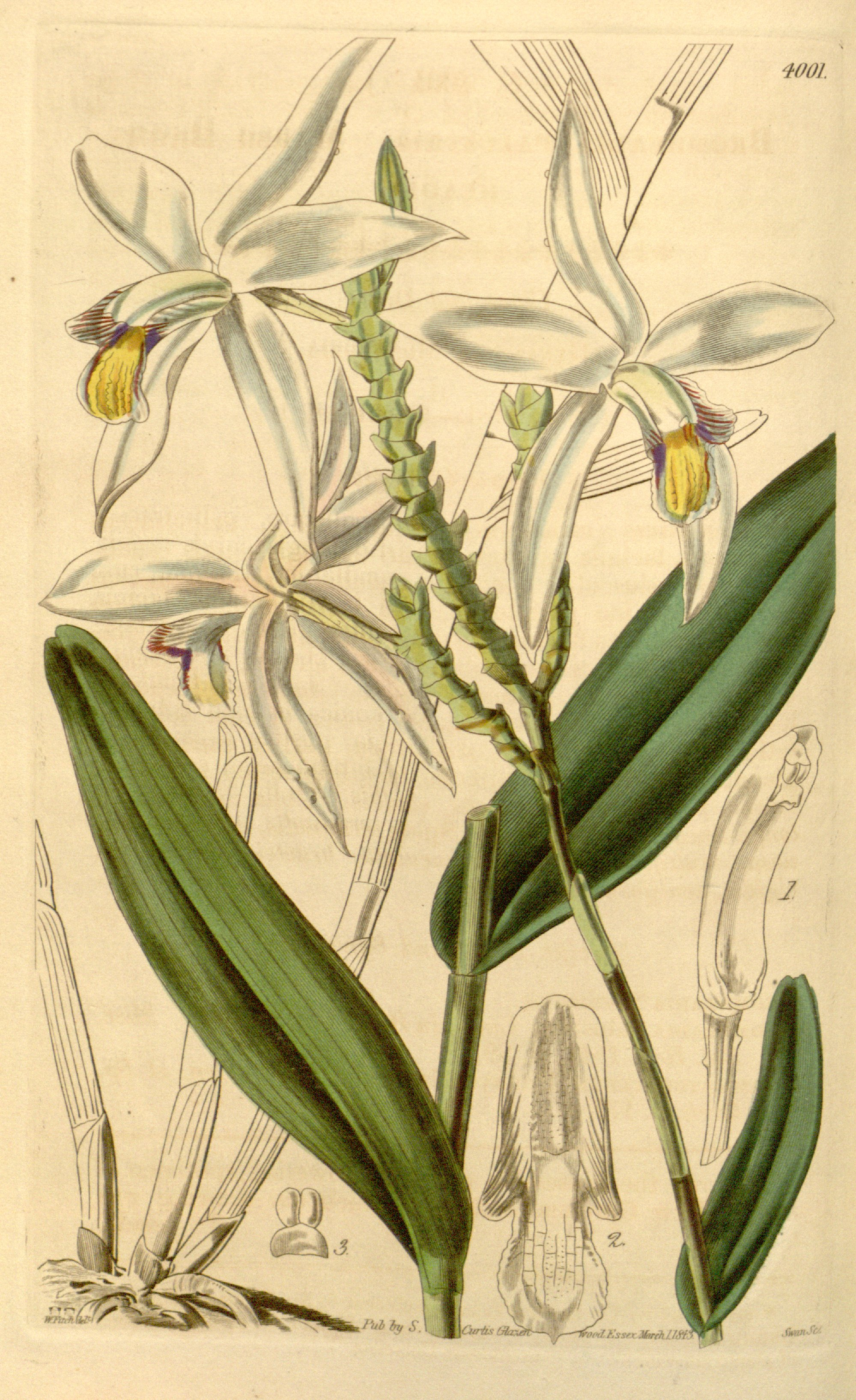 Illustration of Bromheadia finlaysoniana (as syn. Bromheadia palustris)